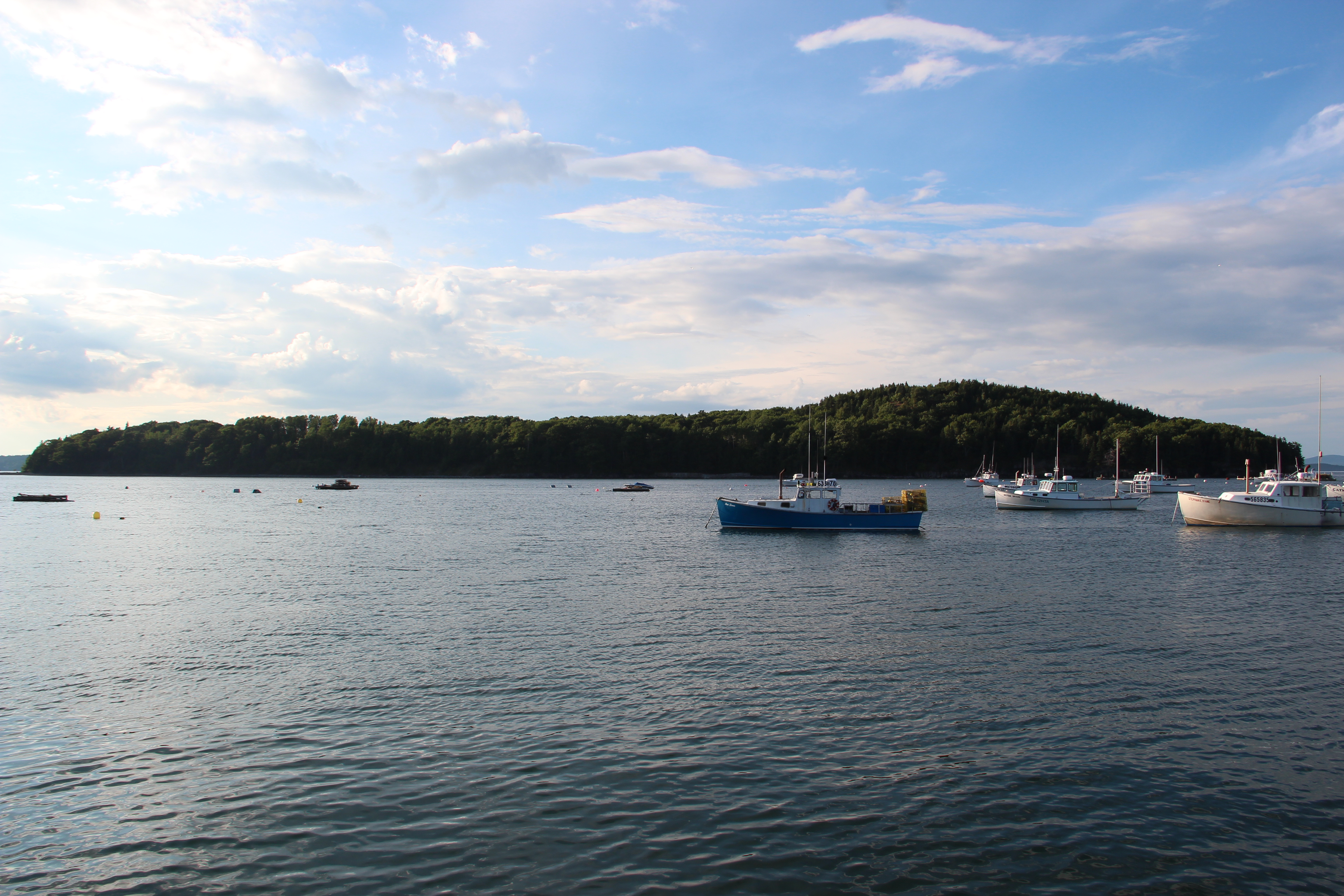 Bar Island, Maine